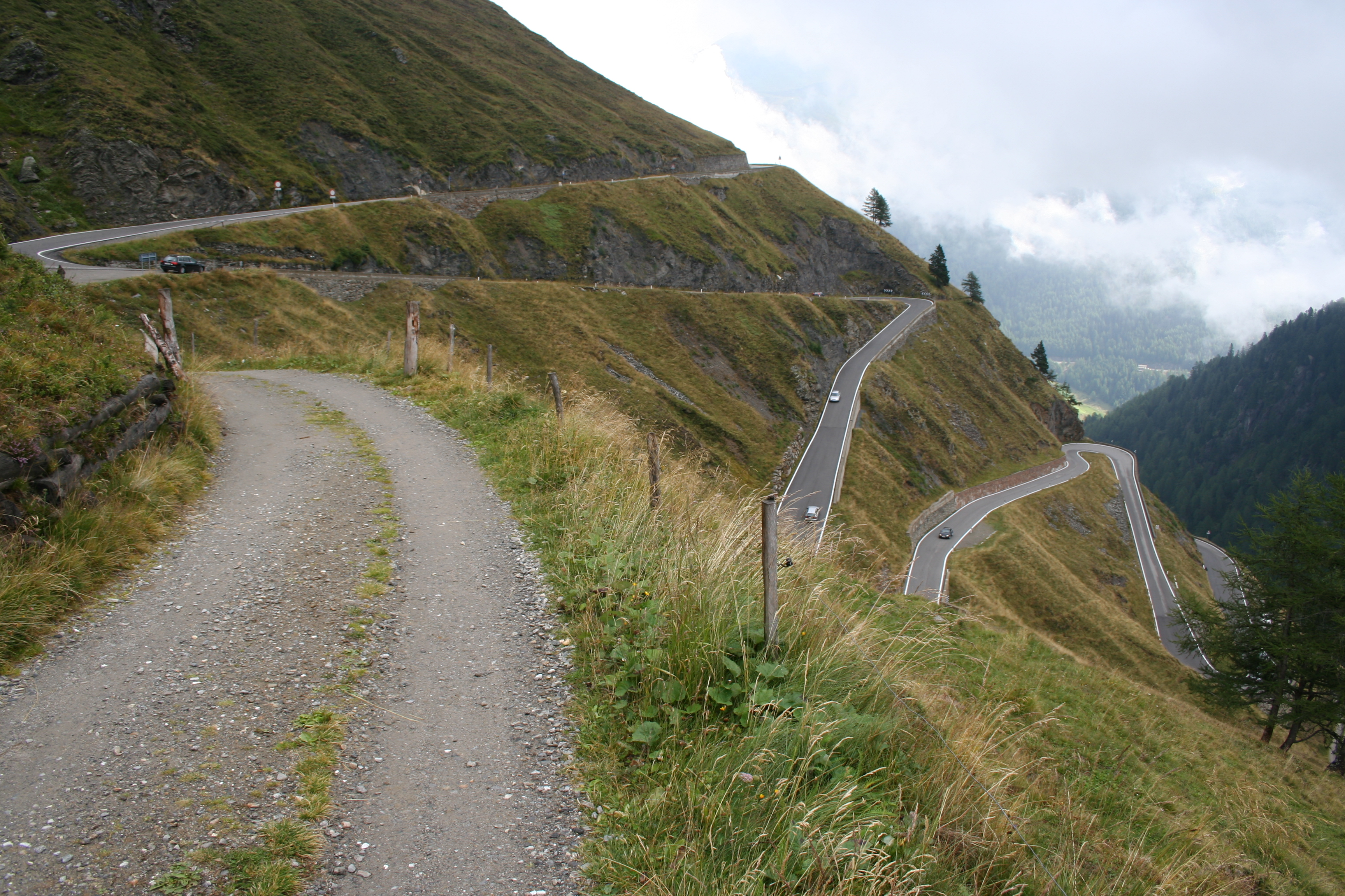 Passo del Rombo road on the Italian side